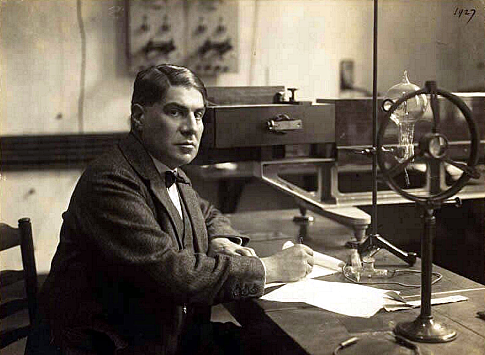 Photograph of Leonard Samuel Ornstein, professor at Utrecht University